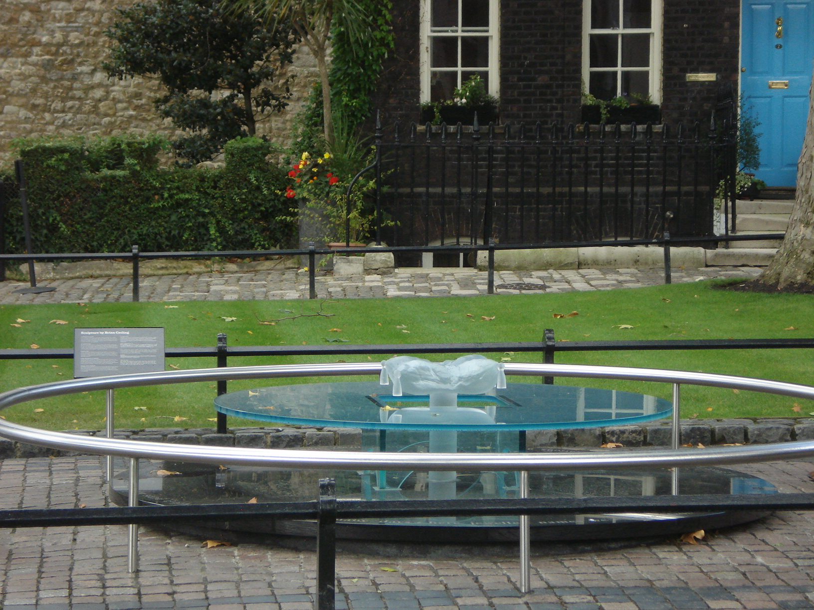 Scaffold site at Tower Green